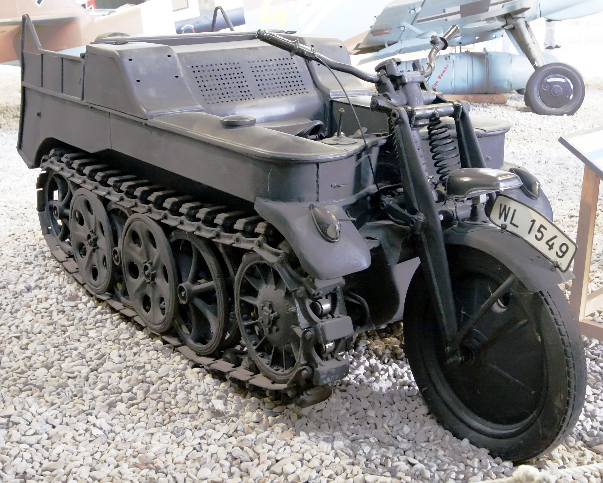 Kleines Kettenkrad (Sd.Kfz. 2) Luftwaffen photo by baku13, 12 Aug 2005 on display at the Luftwaffenmuseum, Berlin-Gatow Germany.